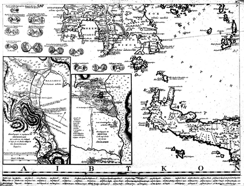 Greece